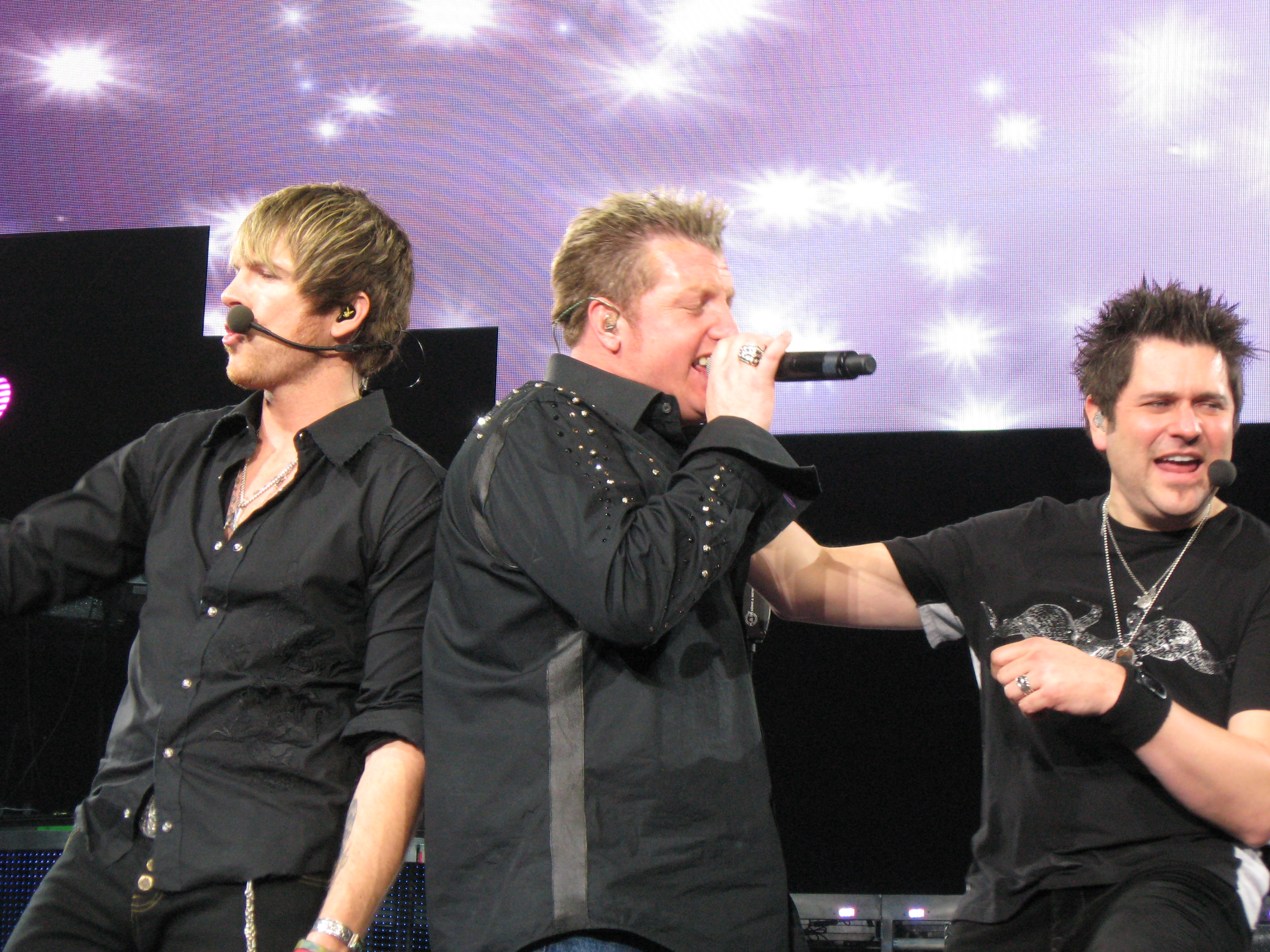 Rascal Flatts LIVE at Mandalay Bay in Las Vevas, NV!